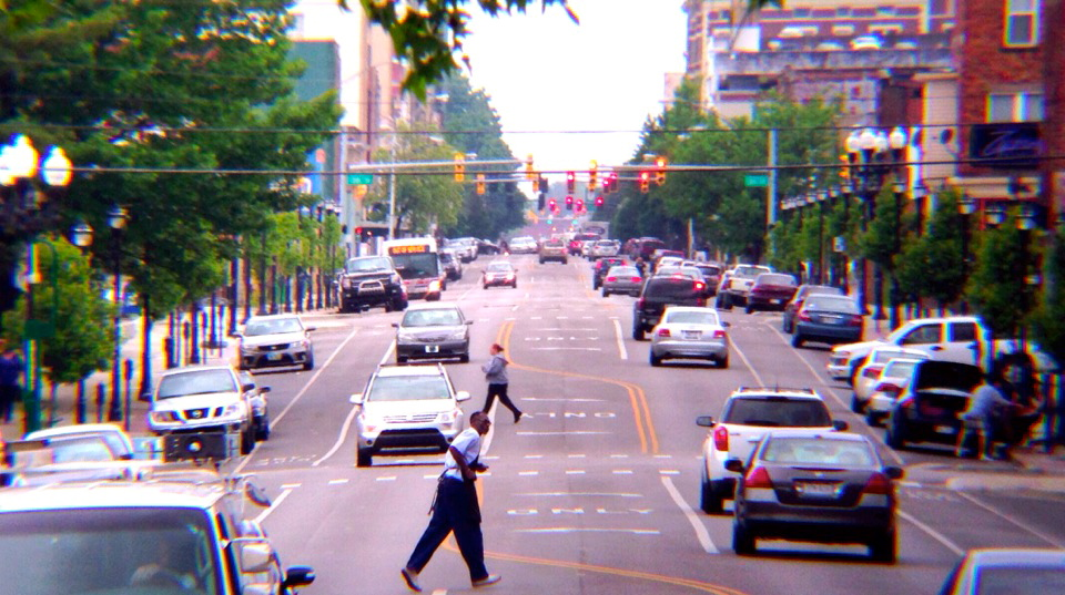 The old Main Corridor of Fourth Avenue, as seen from Marshall University. Two people playing human frogger.Taken May 12, 2013, with an iPhone 5.